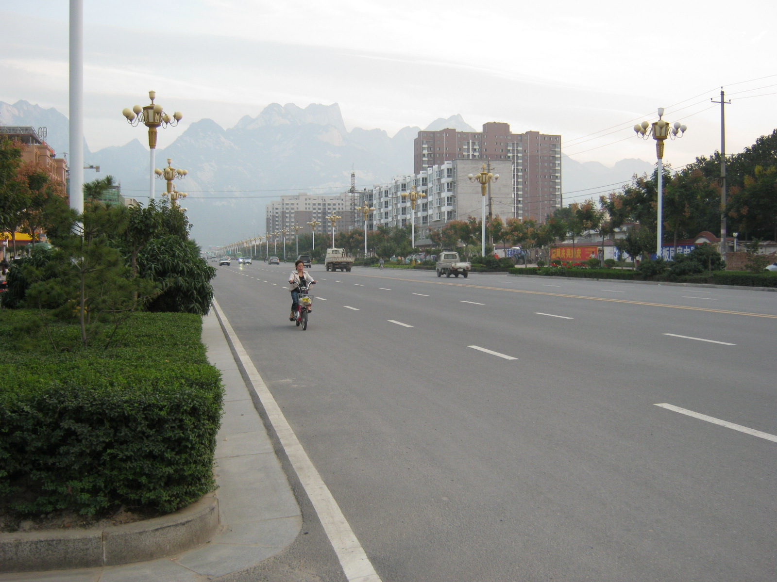 HuaYin